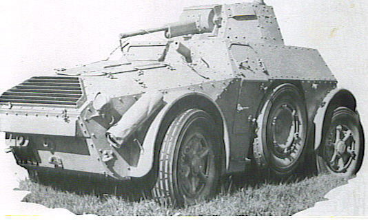 Autoblinda AB 41 armored car.